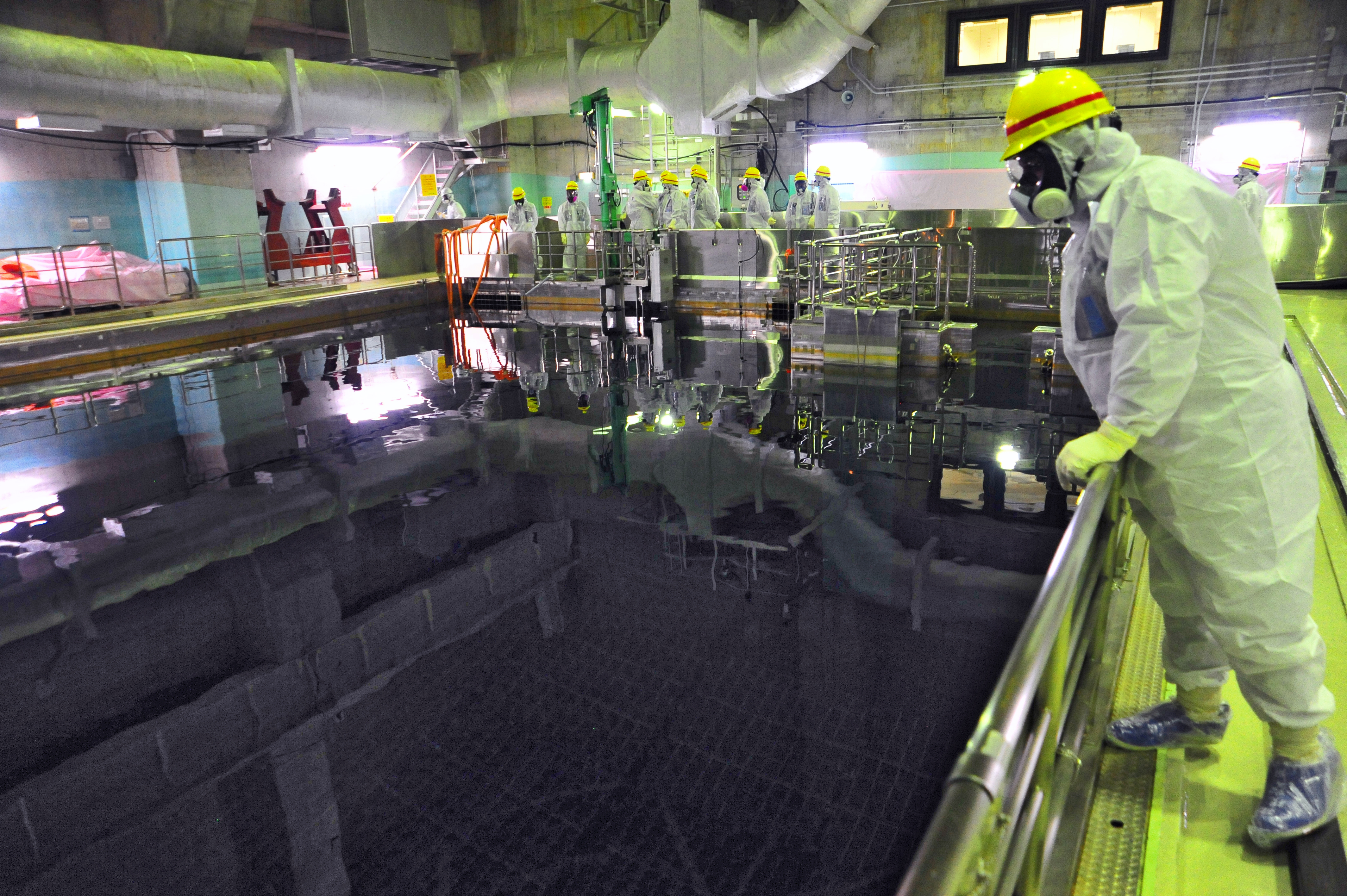 Georgi Stoyanov, of the Canadian Nuclear Safety Commission, examines the Common Spent Fuel Pool at TEPCO's Fukushima Daiichi Nuclear Power Station on 27 November 2013. Stoyanov is participating in an IAEA expert team that is assessing Japanese efforts to decommission the stricken nuclear power plant. Last week, TEPCO began moving nuclear fuel assemblies from Reactor Unit 4 to the Common Spent Fuel Pool. Photo Credit: Greg Webb / IAEA